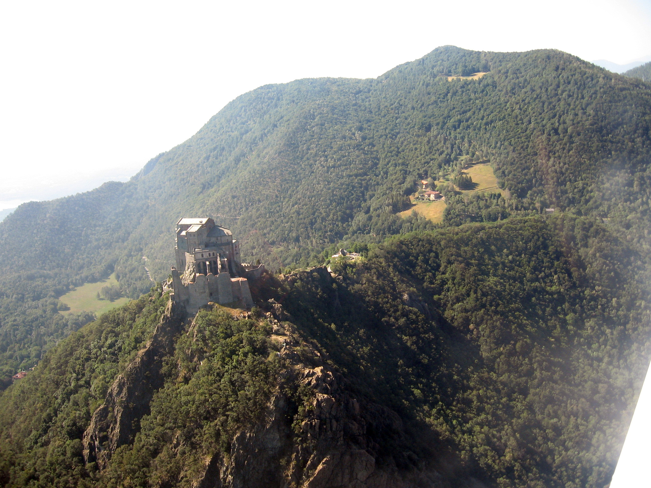 Aerial view of the Sacra di San Michele.